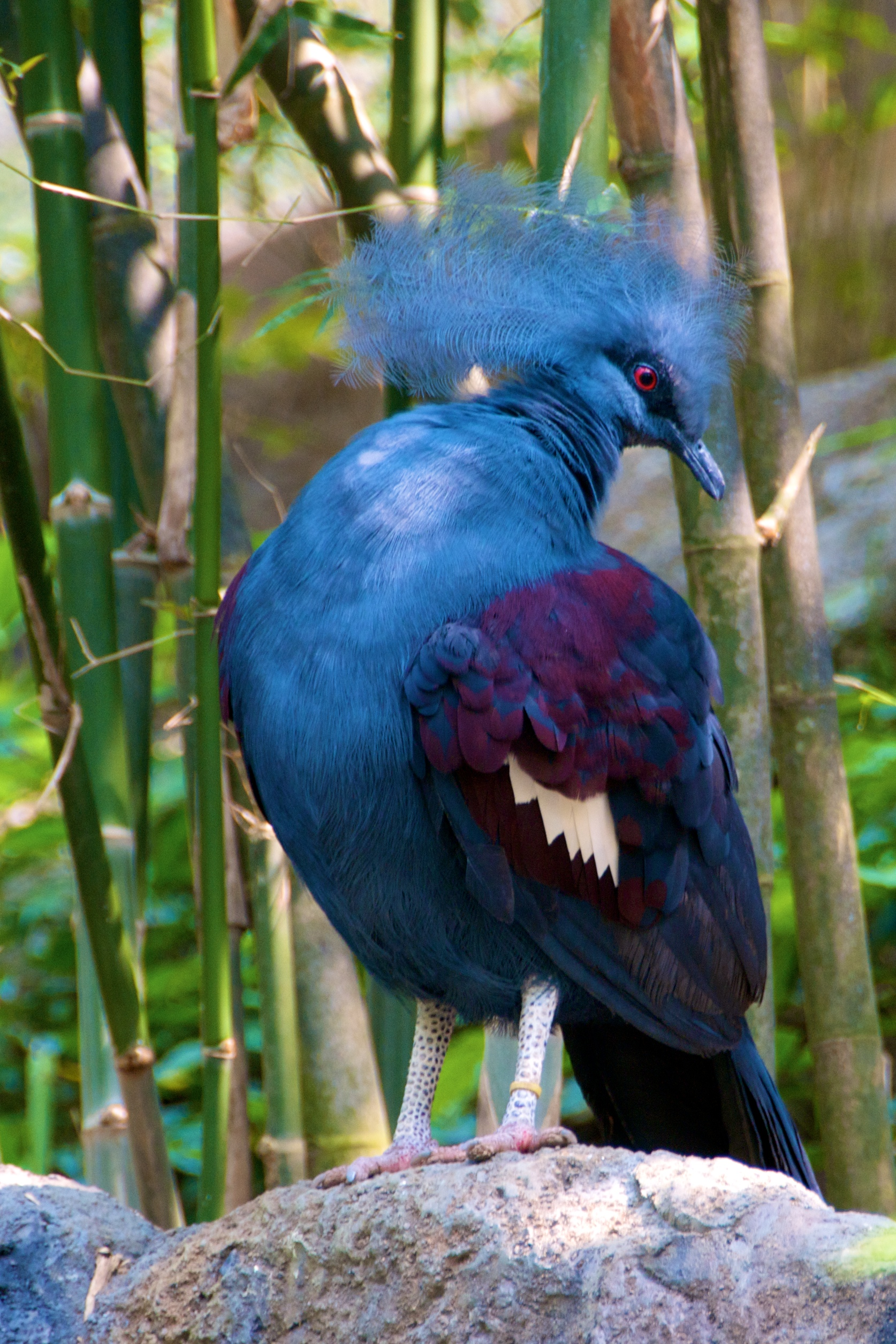 Western crowned pigeon in a zoo.